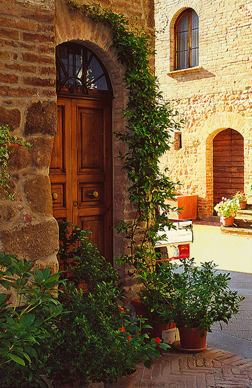 a door in the ancient village